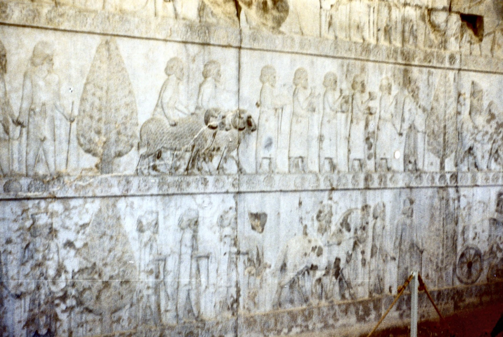 Persepolis, Silicians delegation Picture Taken by myself Persepolis Iran April 2006